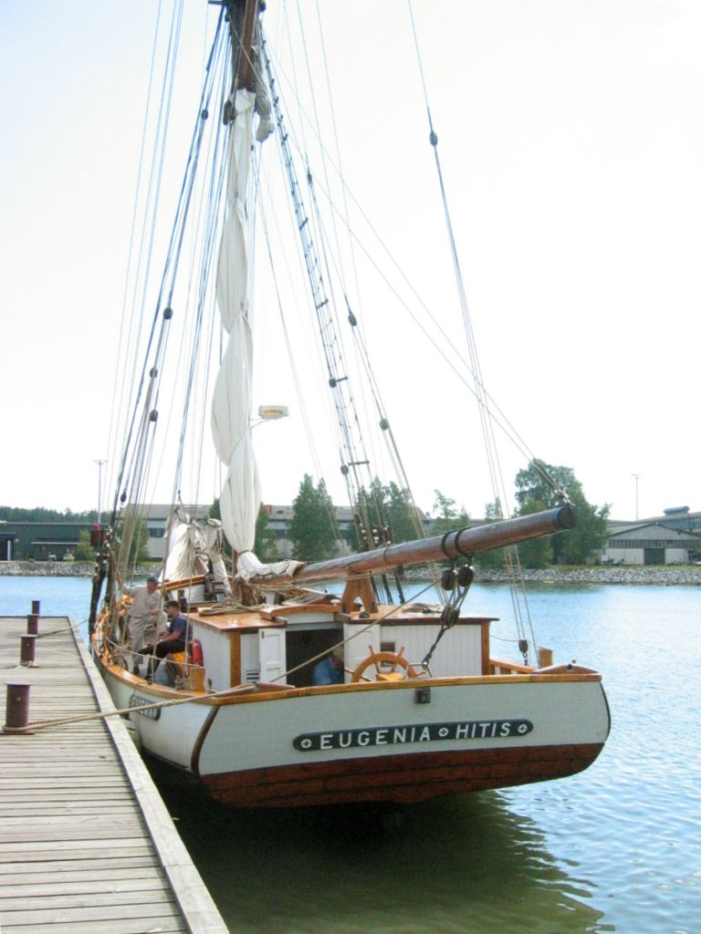 The saling yacht Eugenia in Dalsbruk, Kimitoön, Southwest Finland